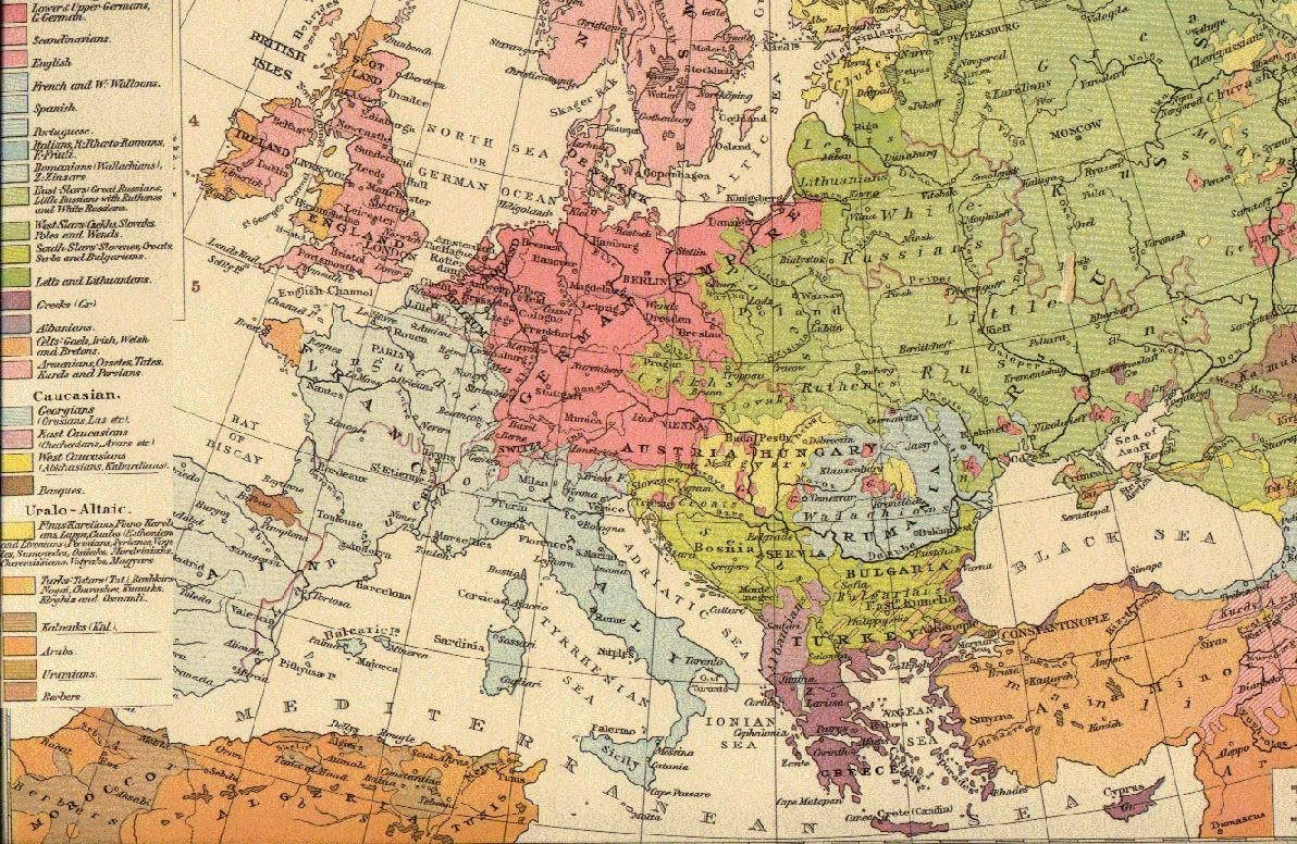 Map of ethnic groups in Europe